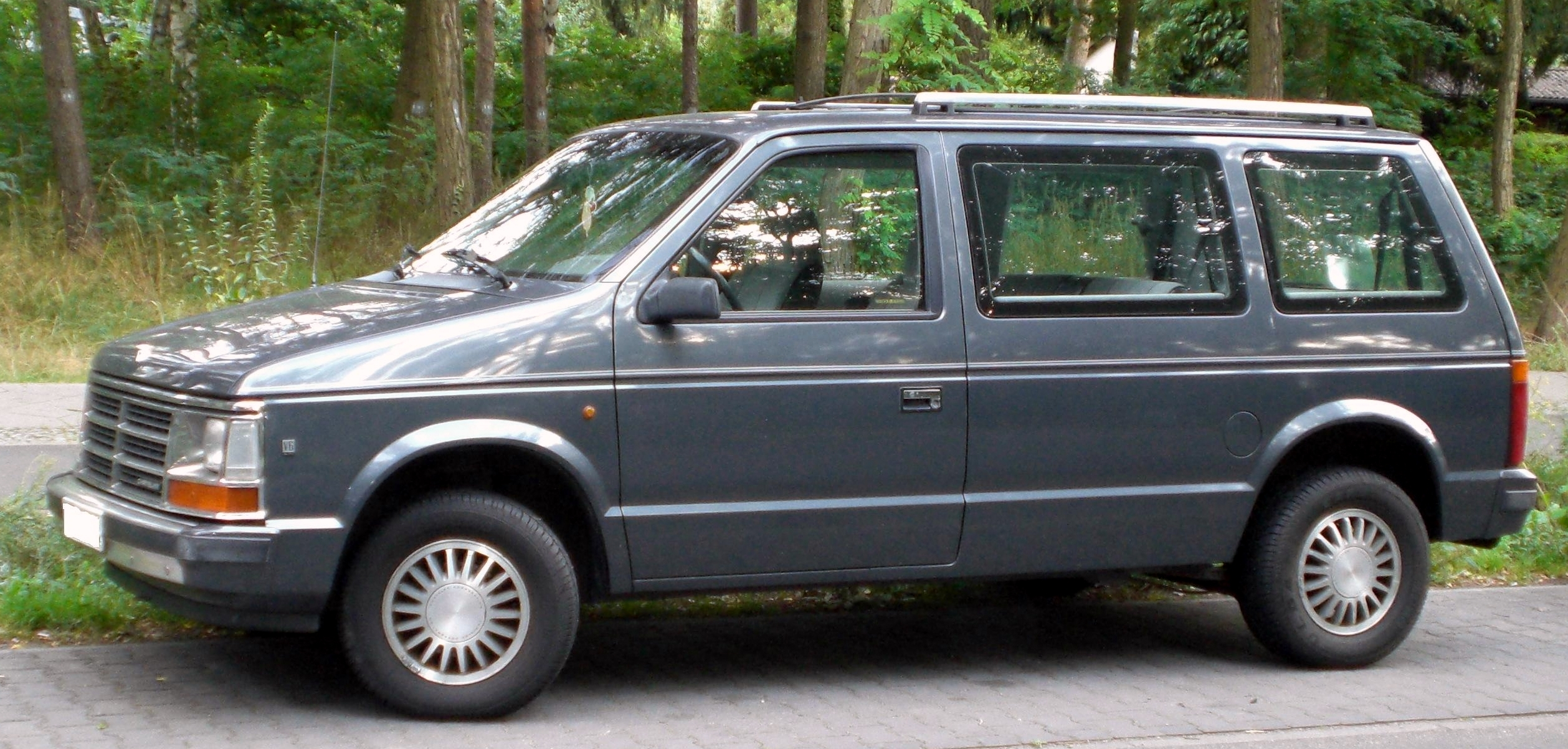 Chrysler Voyager first Generation, European Version